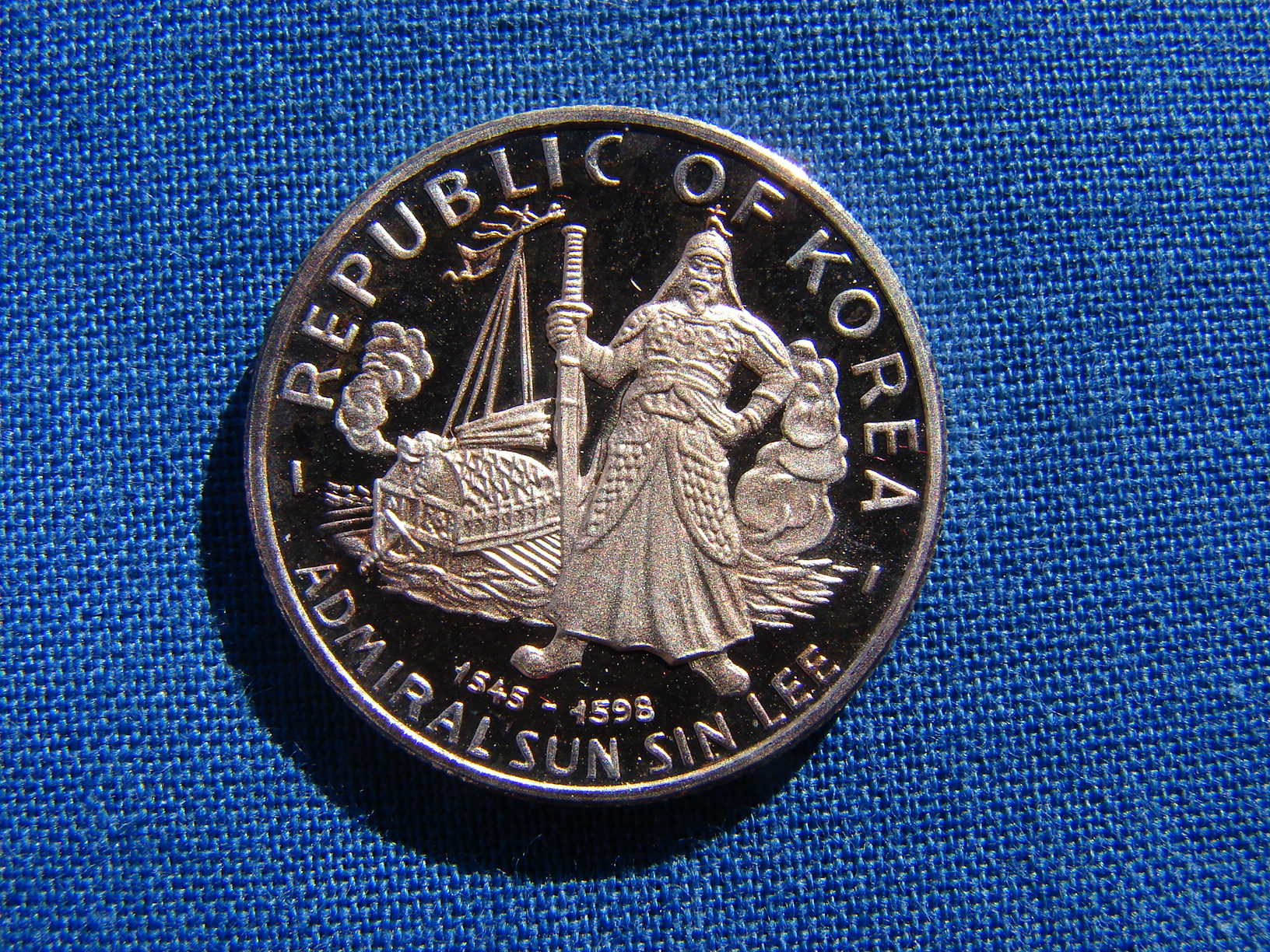 This coin commemorates admiral Yi Sun-sin or Sun Sin Lee